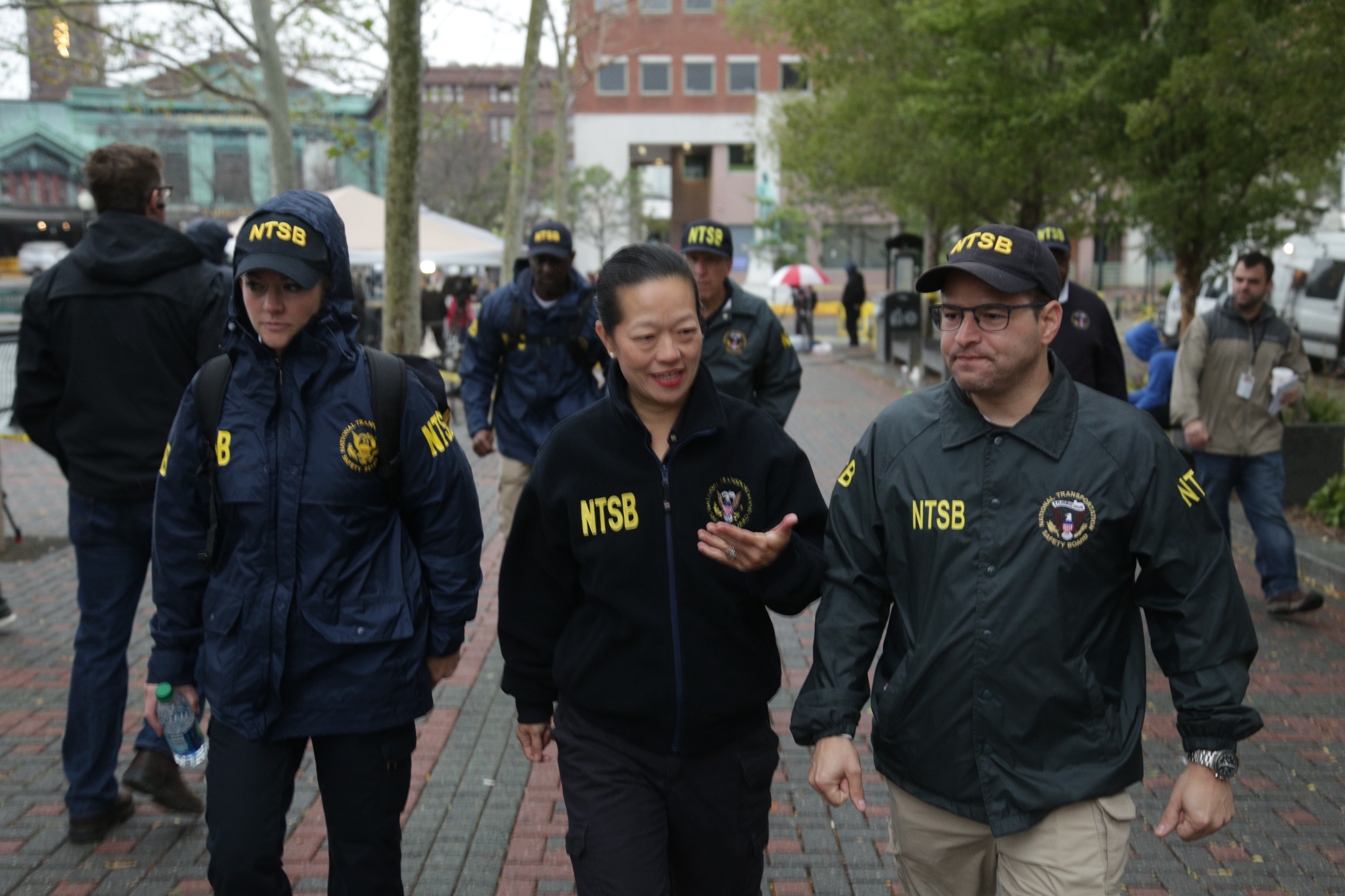 NTSB Vice Chairman Bella Dinh-Zarr and other NTSB employees in the aftermath of the 2016 Hoboken crash